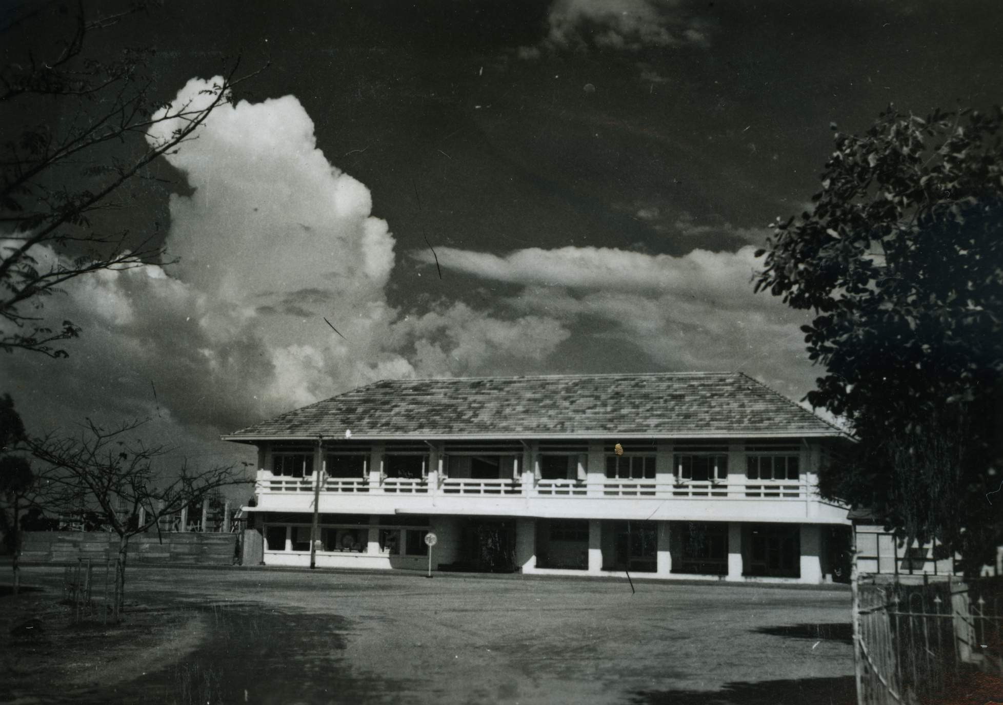 Hotel Darwin from Herbert Street entrance (PH0830/0034)